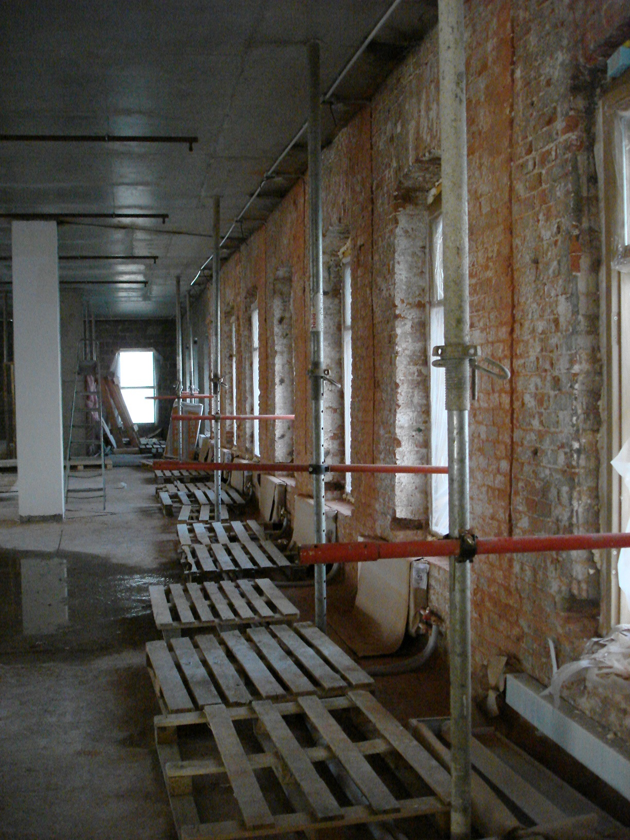 Preserved portion of the wall of the building at 22 Malaya Dmitrovka Street, Moscow, Russia. Interior view during the construction.